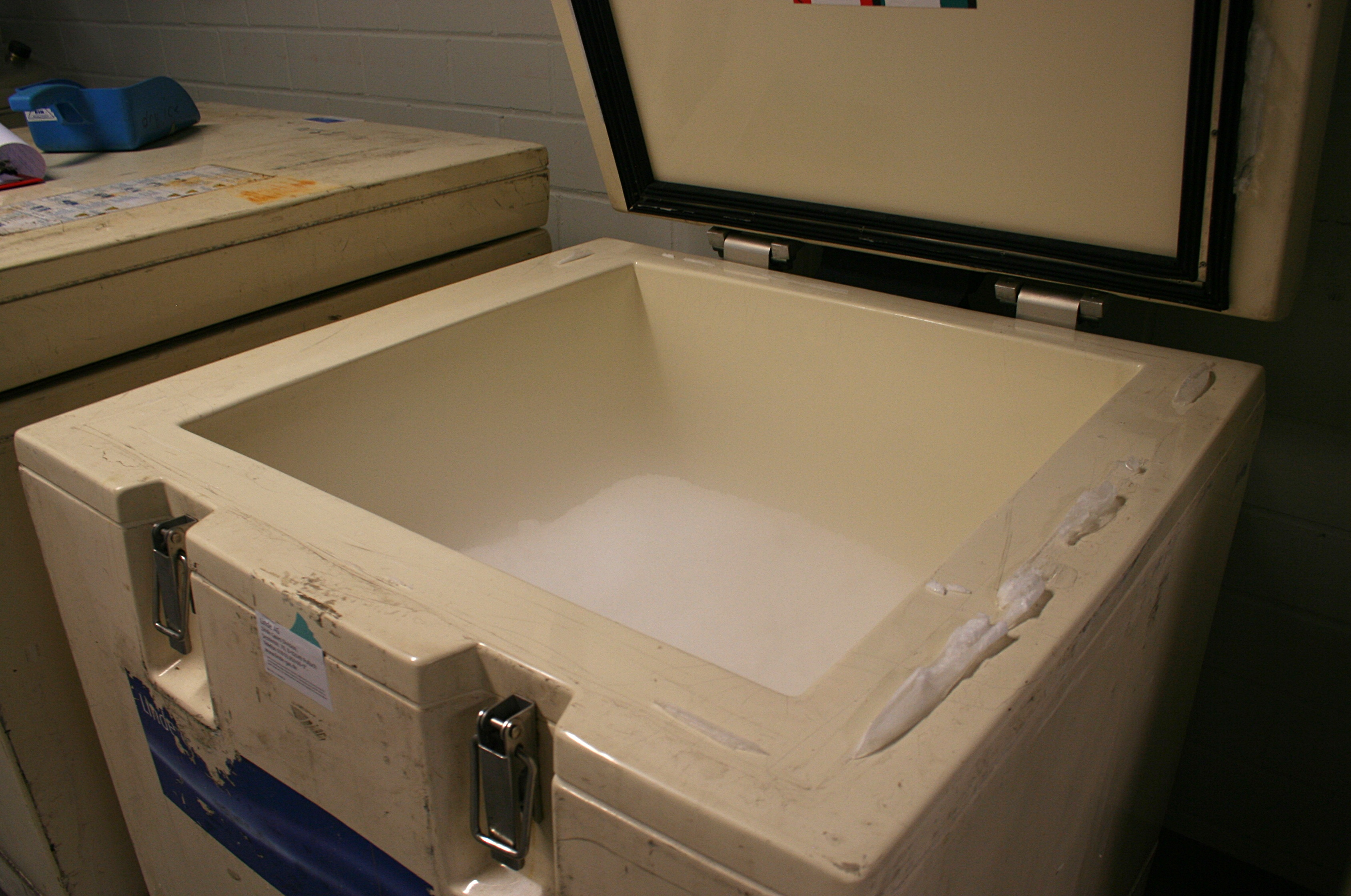 Container for dry ice